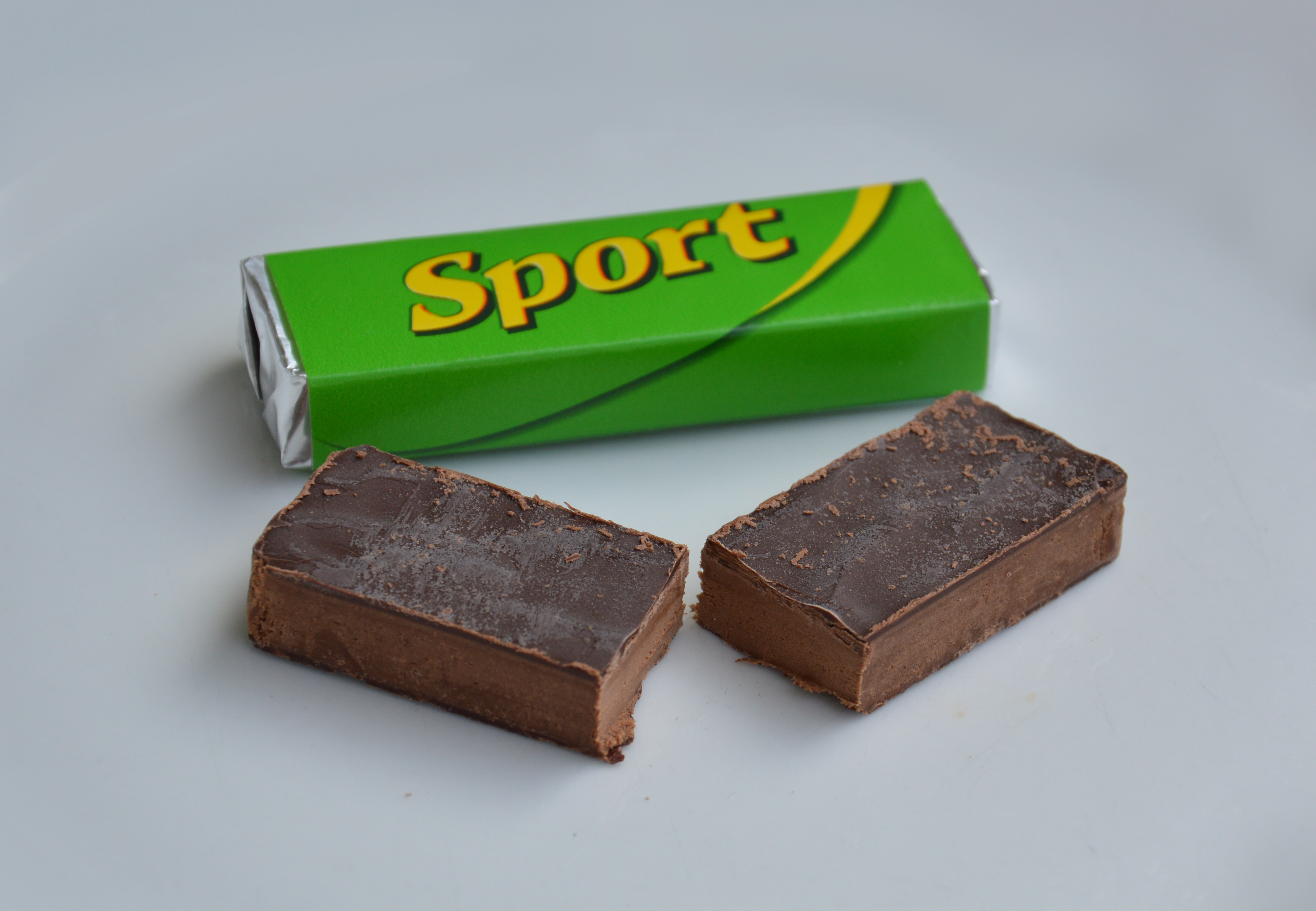 "Sport szelet" rum-flavoured chocolate bar from Hungary.